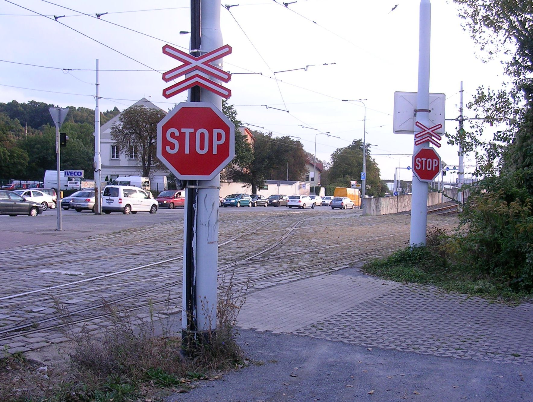 Braník, Prague, the Czech Republic. Exit of "Nádraží Braník" tram track loop and level crossing near Modřanská street.